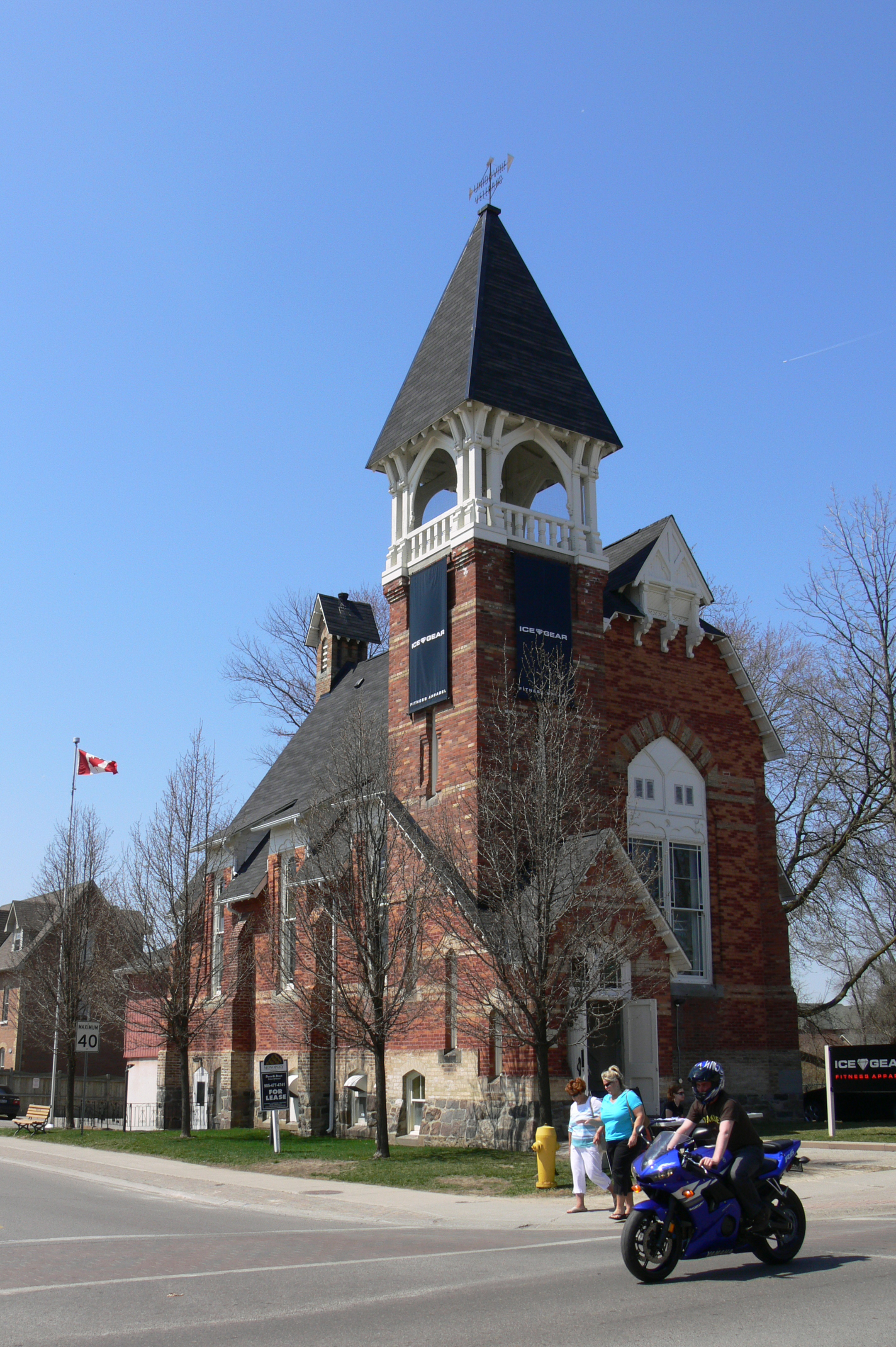 An old church at Unionville, Main St, Ontario